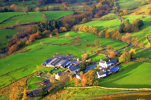 Little Town from Knott End, near to Little Town, Cumbria, Great Britain.